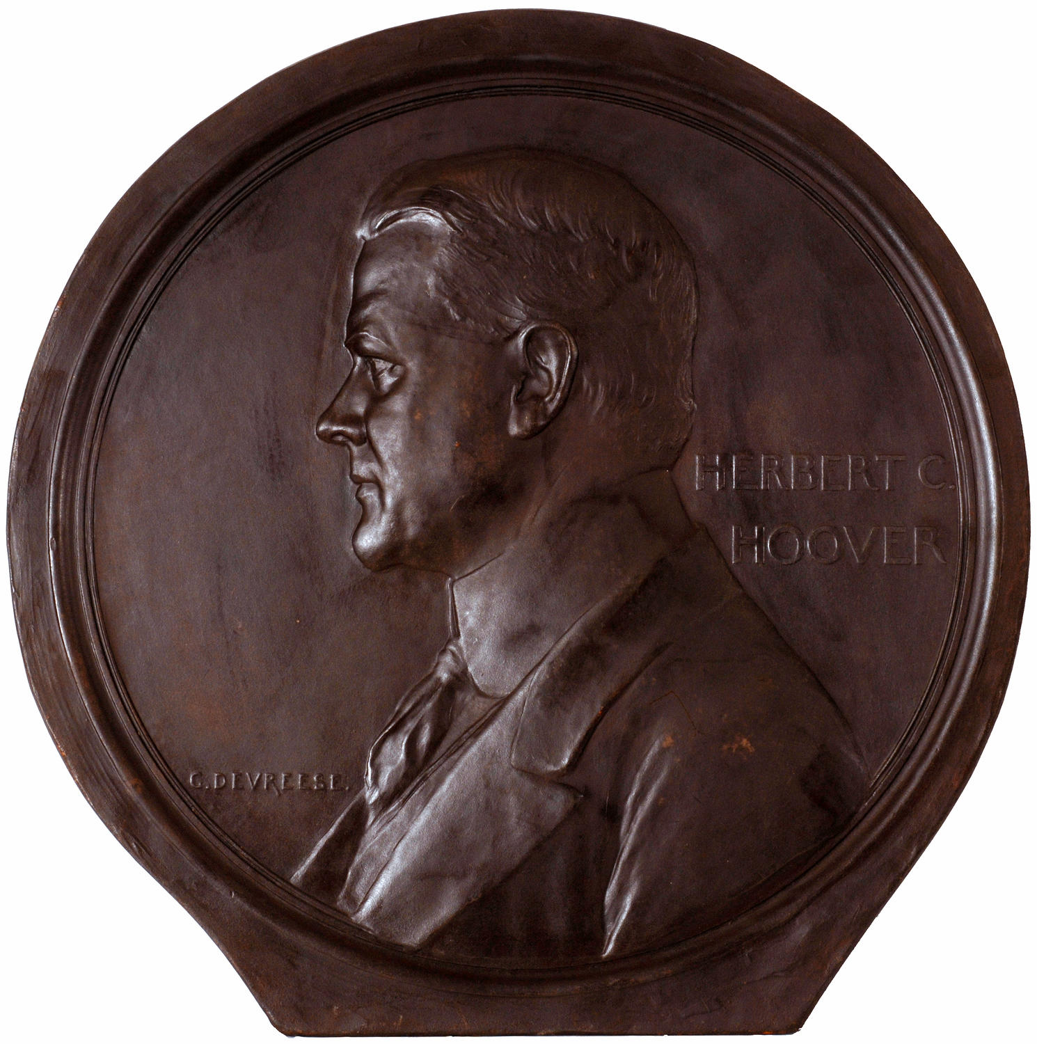 bas-relief in the collection Marie-Louise Dupont